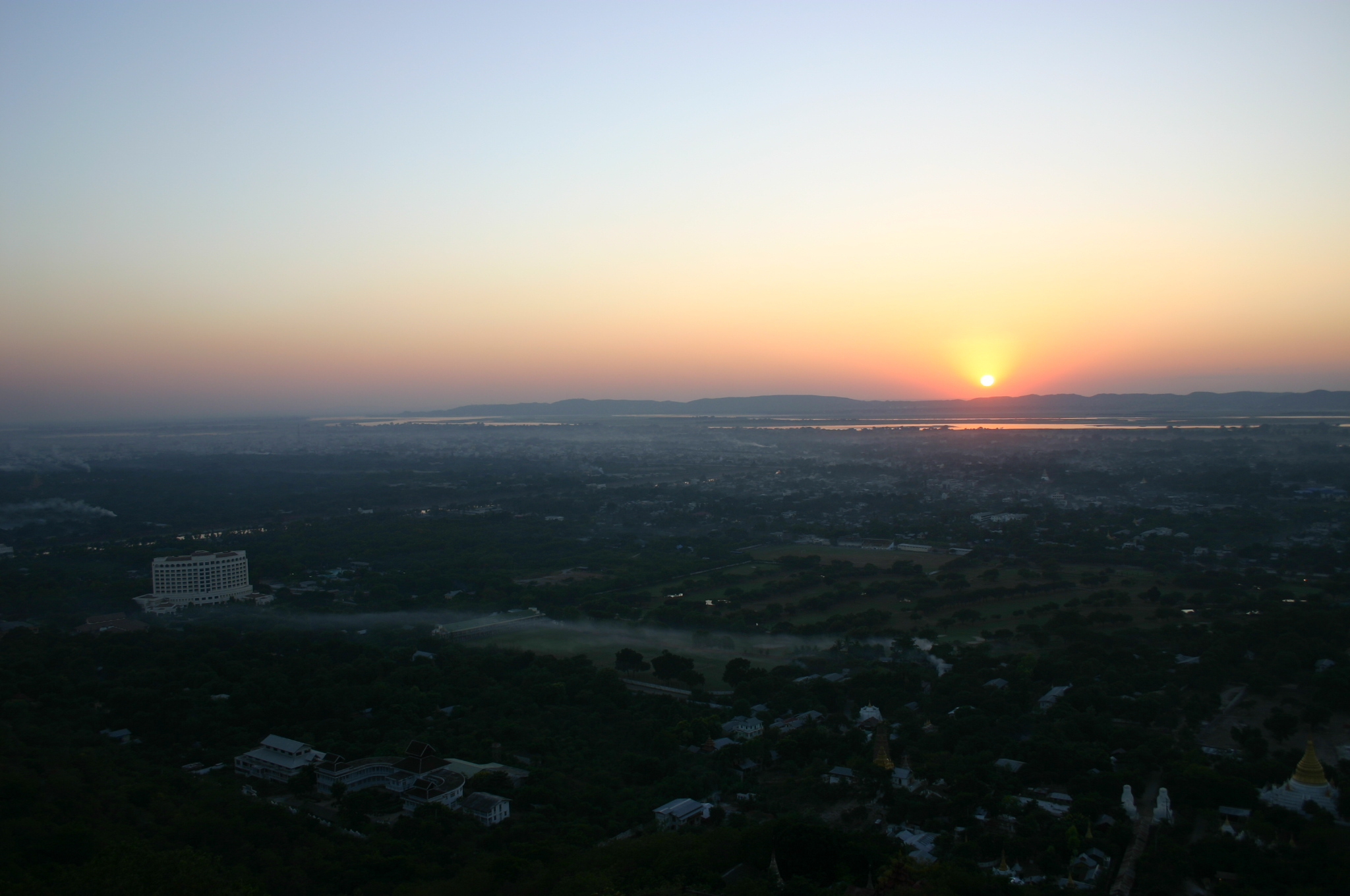 Sunset from Mandalay Hill, Mandalay Region, Myanmar.